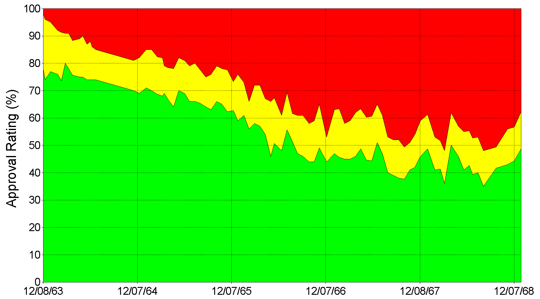 Approval rating for Lyndon B Johnson. Gallup Poll.